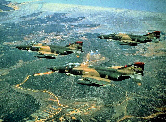 F-4Es of the 36th Fighter Squadron, Osan Air Base South Korea.